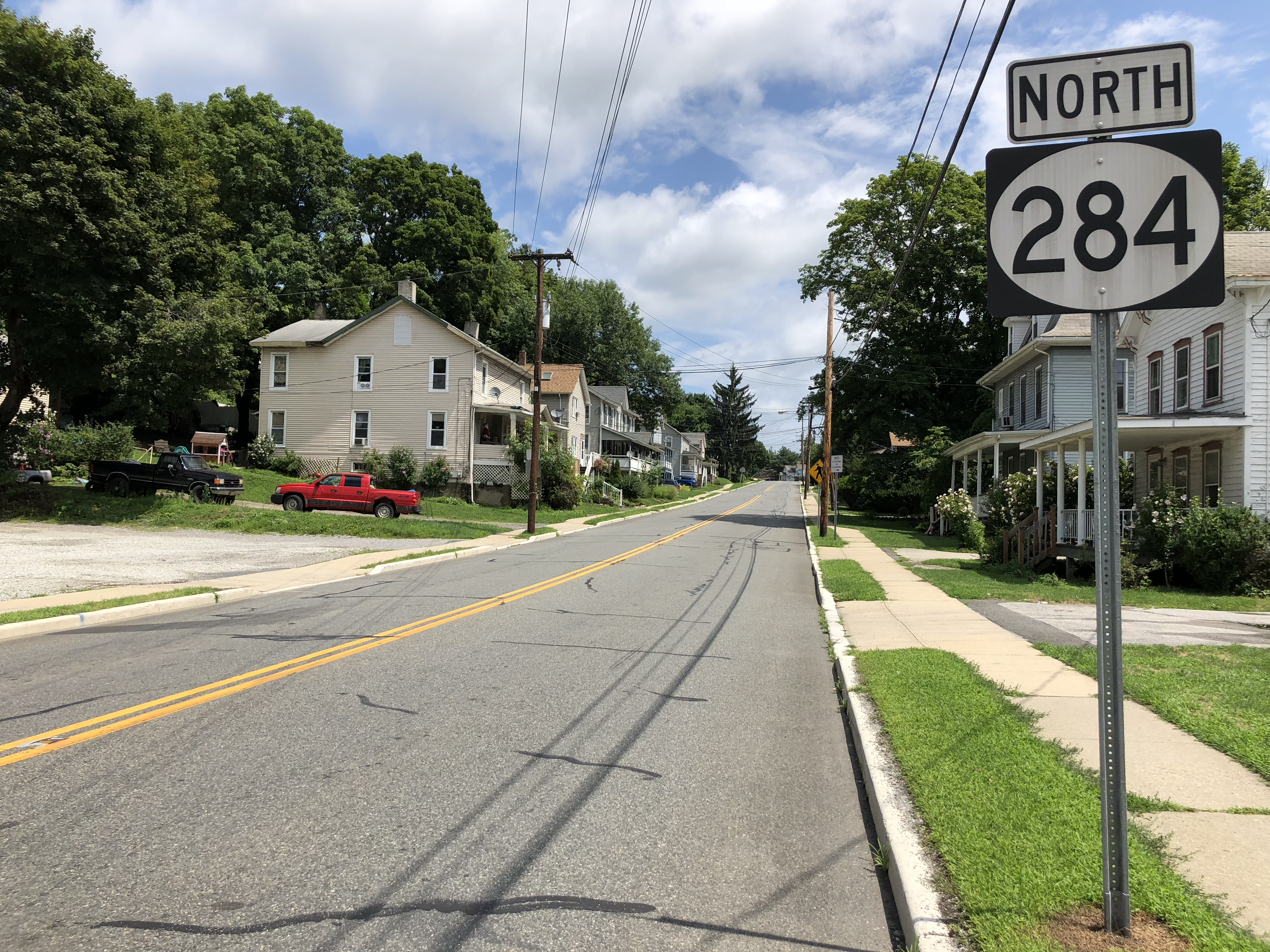 View north along New Jersey State Route 284 (East Main Street) just north of New Jersey State Route 23 (Hamburg Avenue) in Sussex, Sussex County, New Jersey